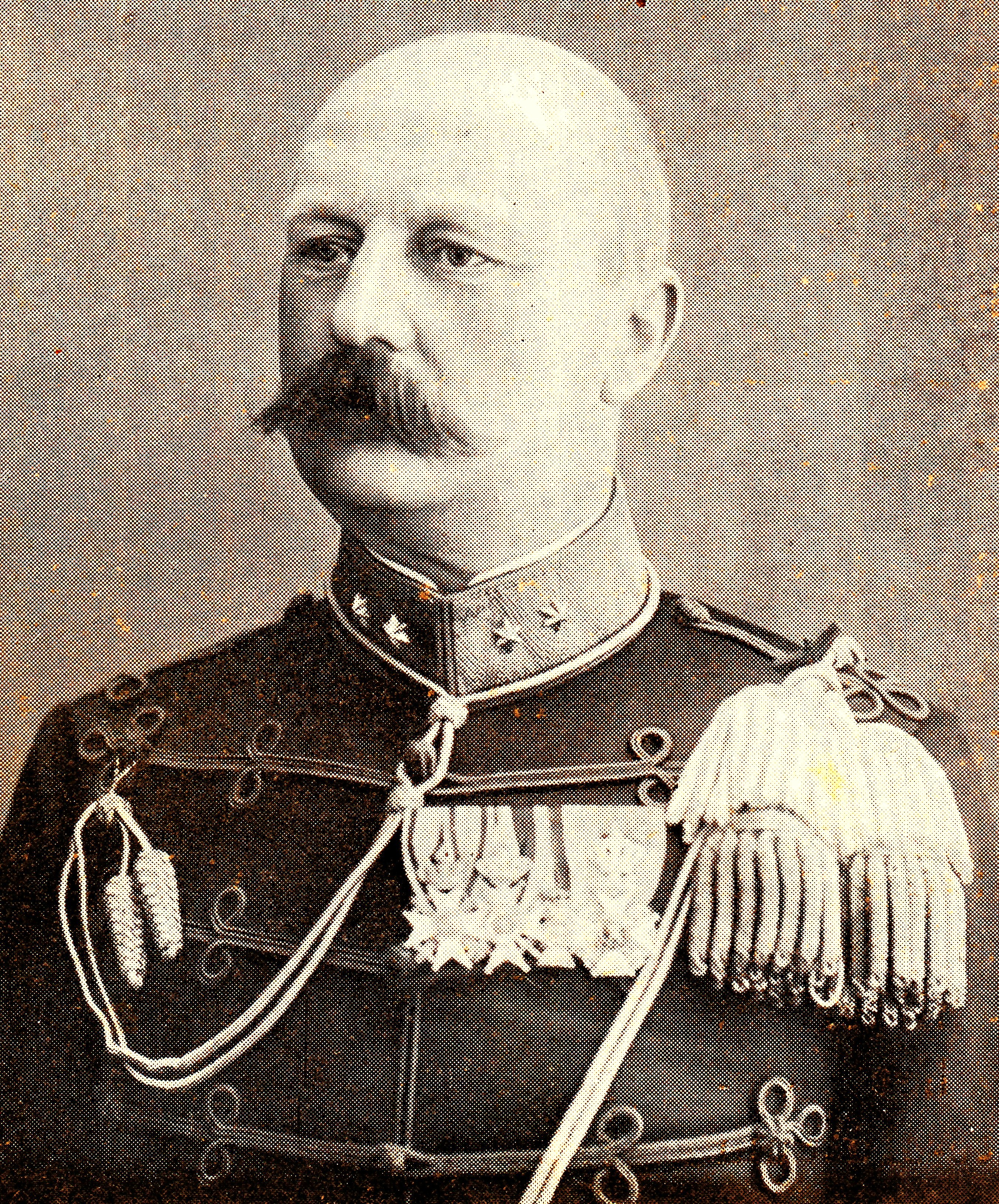 GAA Alting von Geusau